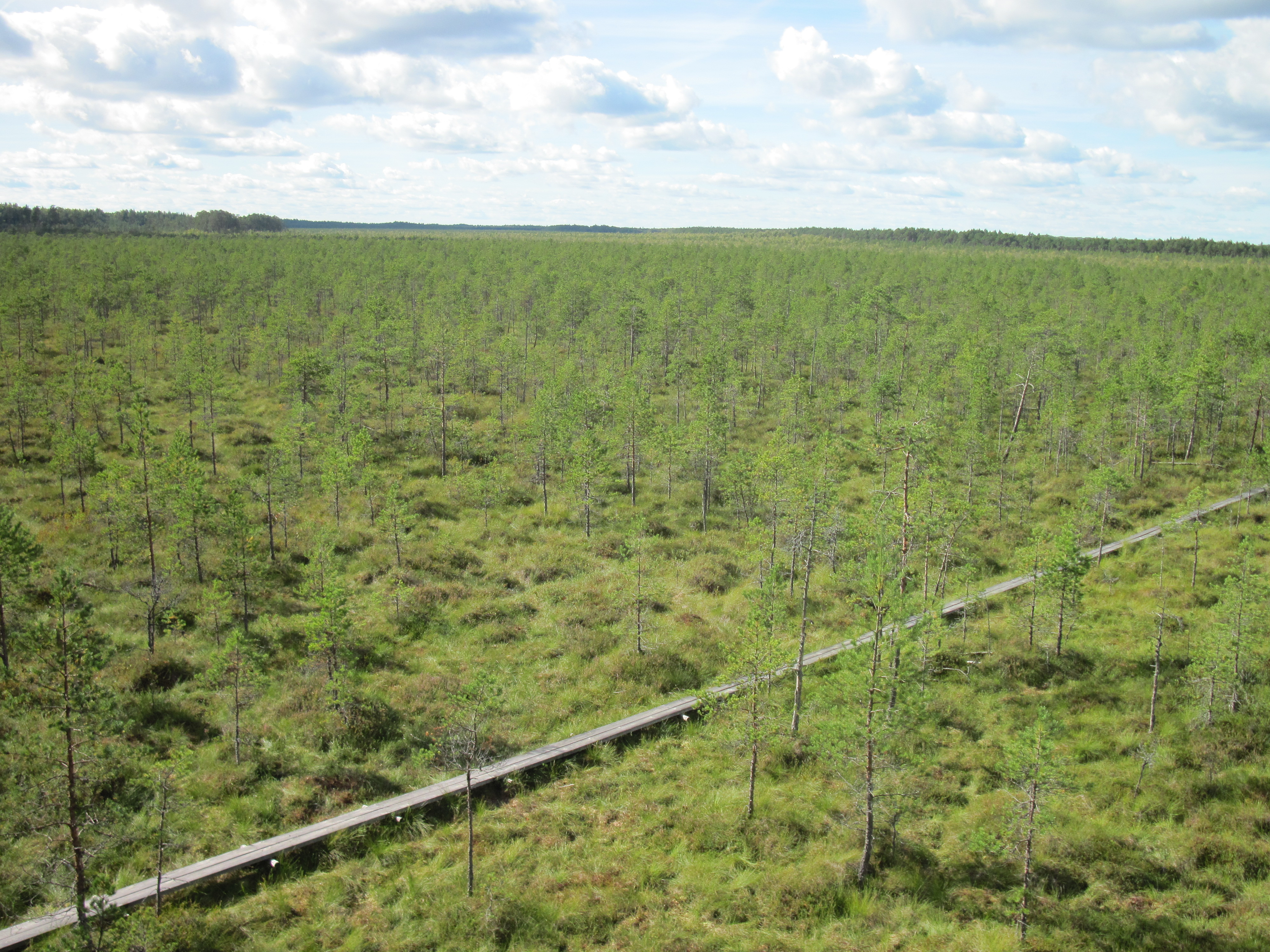 Selli - Sillaotsa hiking trail